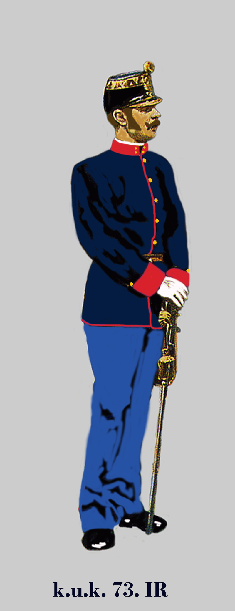 1st Lieutenant of the Austria-Hungarian (k.u.k.). 73rd german Infantry Regiment in Parade dress. 1914